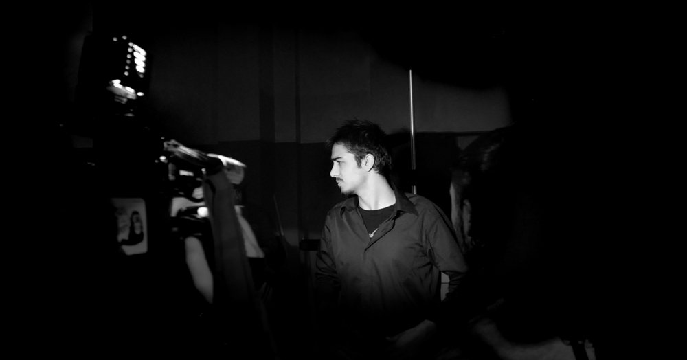 Doruk Cetin, on set.